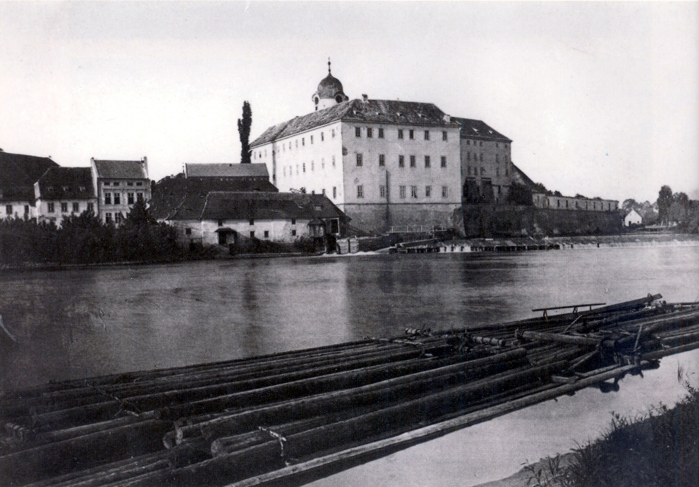 The oldest known photography of the Poděbrady taken around the year 1865.